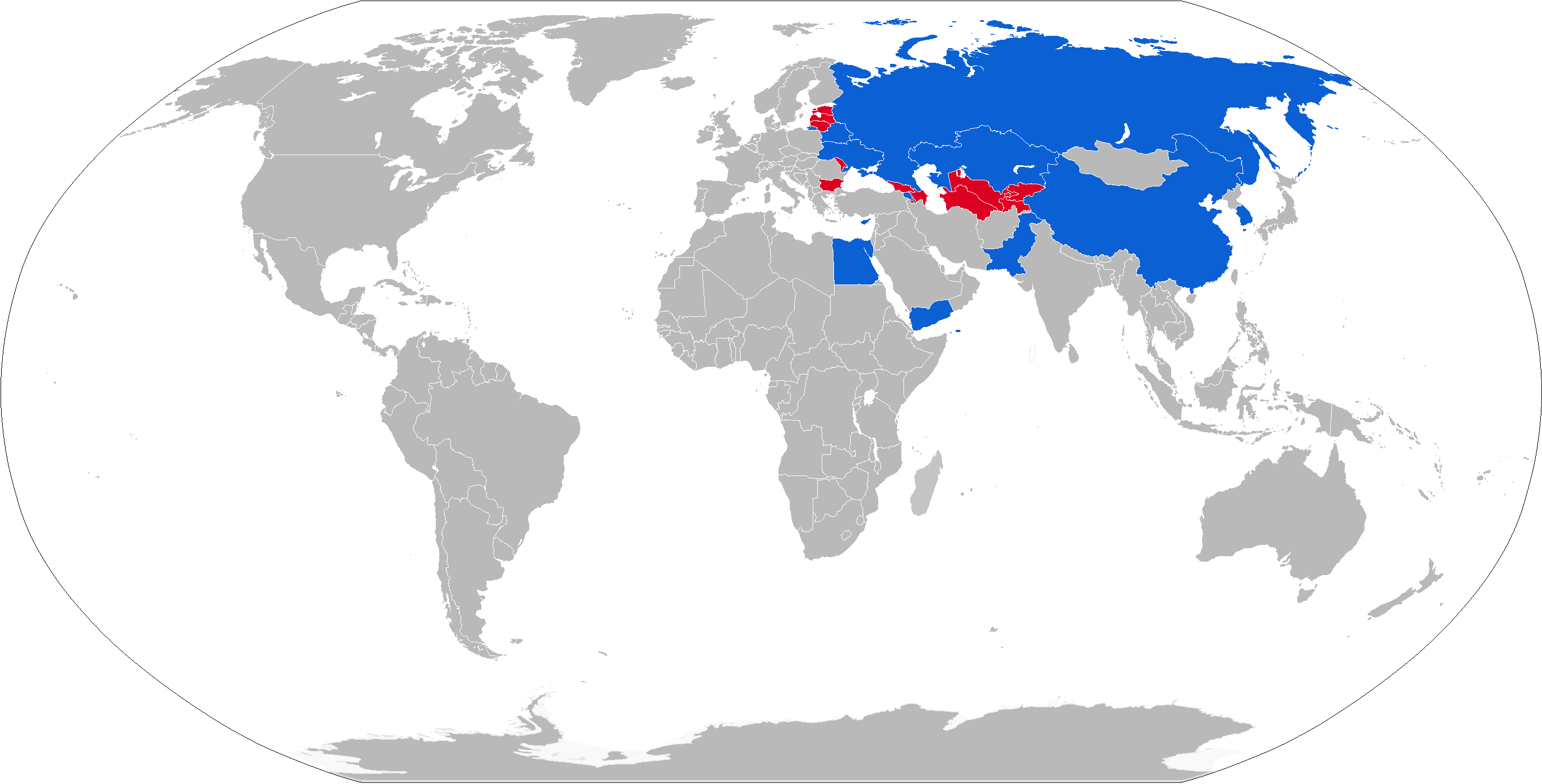 T-80 Russian Main battle tank operators in blue .